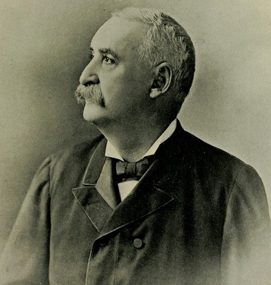 Guy Ray Pelton, Congressman from New York